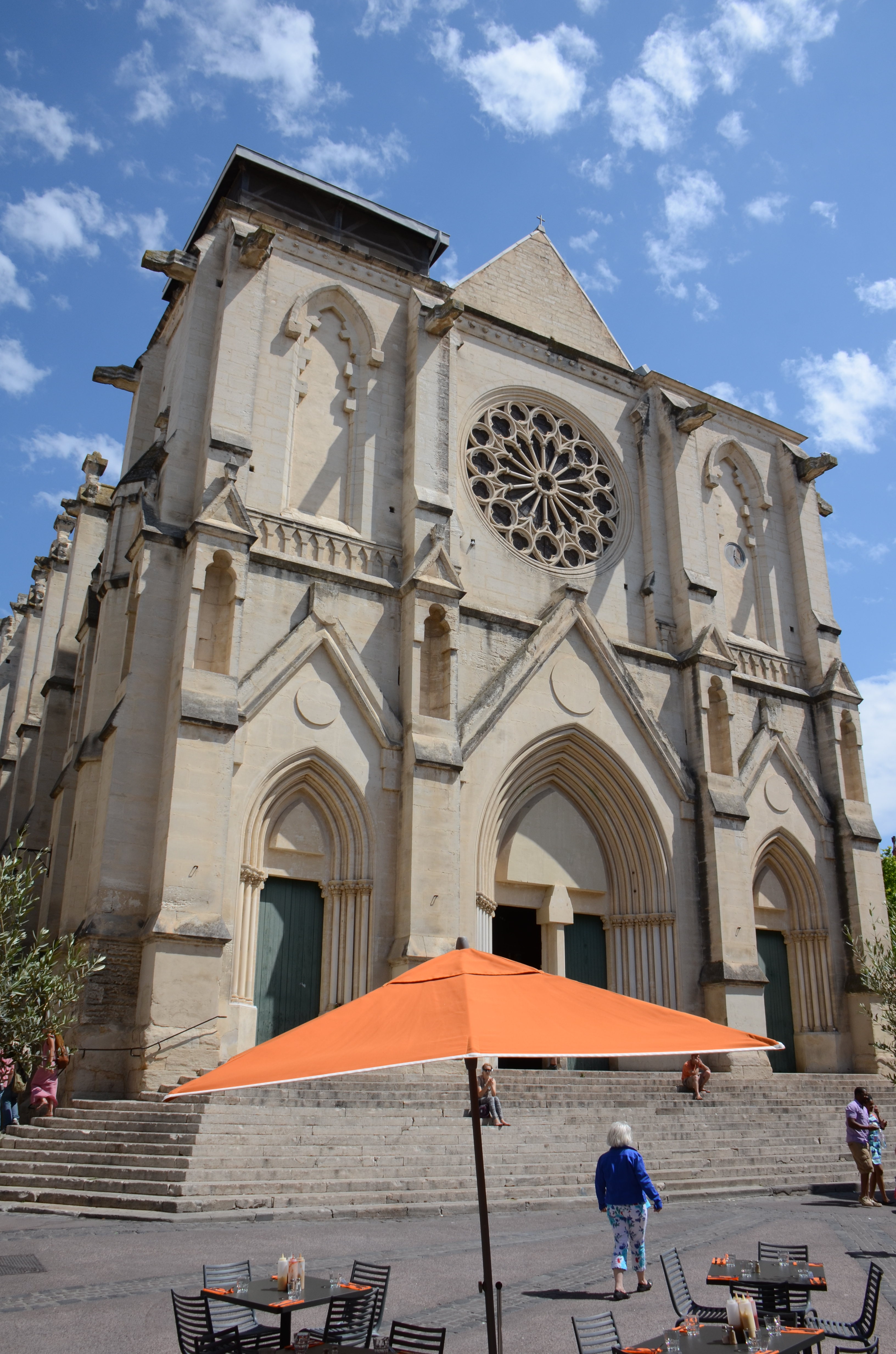 Church Saint-Roch for the pilgrims to Santiago da Compostella